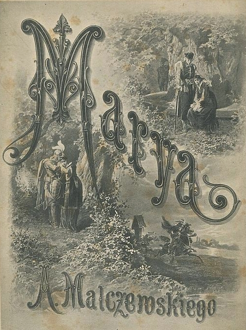 Okładka powieści "Marya" Antoniego Malczewskiego autorstwa Michała Andriollego.